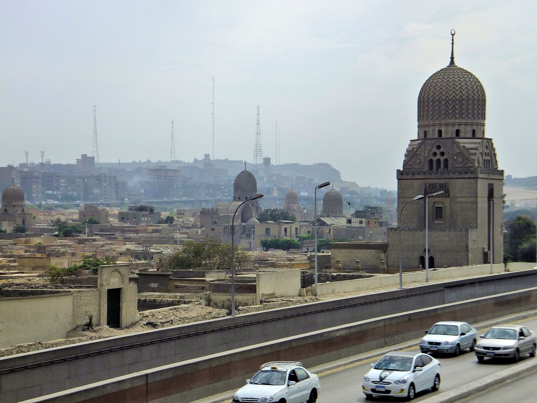 View of the Northern Cemetery from Salah Salem road, with Mokattam hills in the distance.